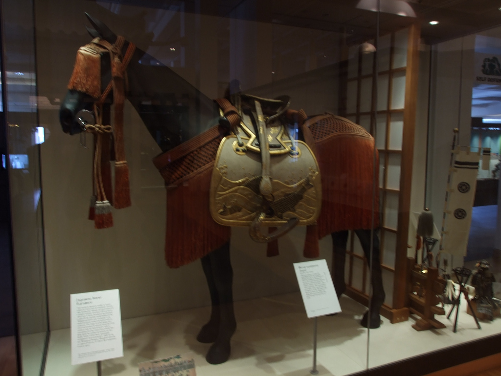 Kura-no-baju (Japanese saddle and related parts}, a complete set of samurai horse related equipment given as a diplomatic gift to Queen Victoria, Royal Armouries View photos from this member or from everyone Leeds.